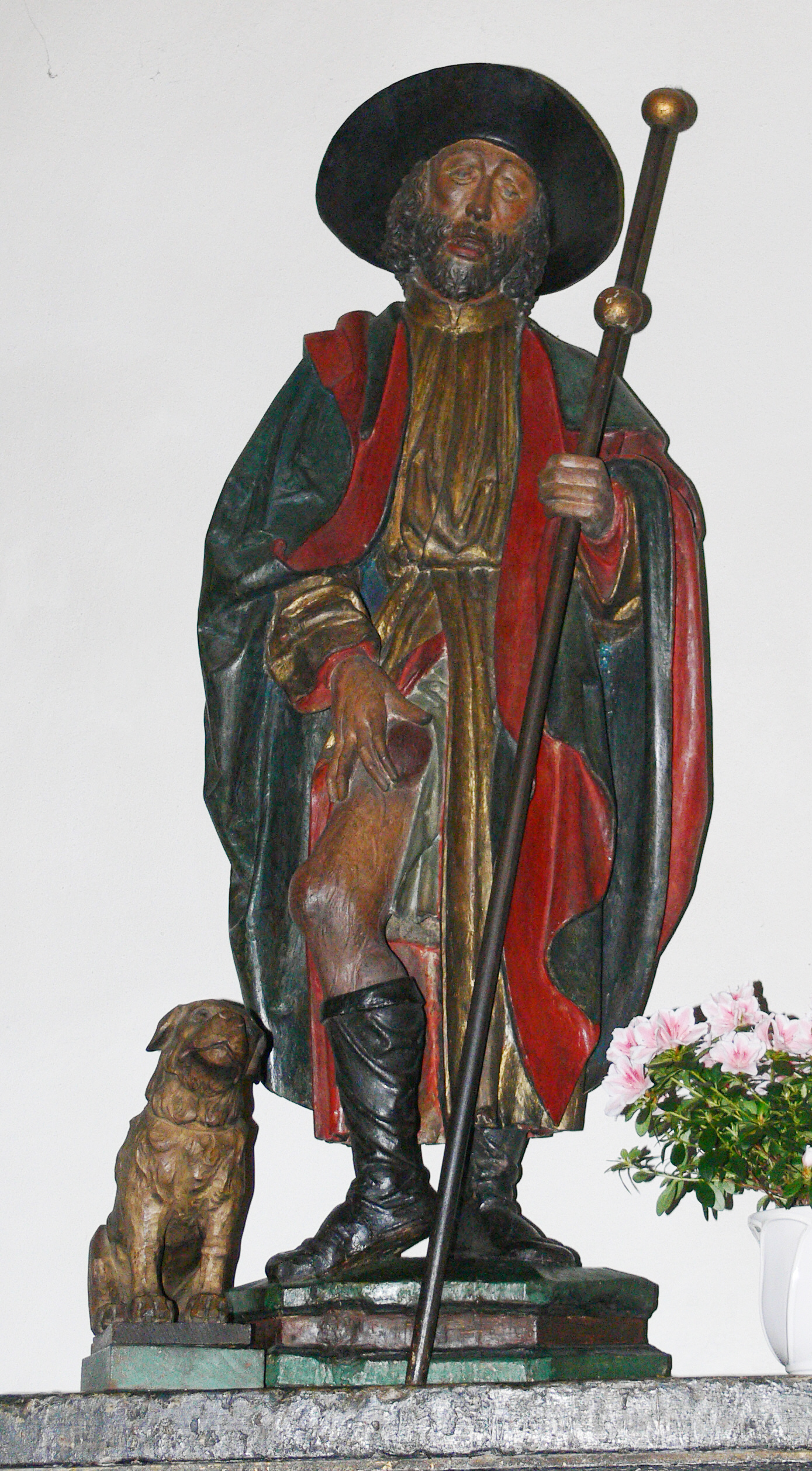 Essen Minster, Essen, Germany: Saint Roch, Lower Rhine area, after 1500. The dog sculpture is a later addition.